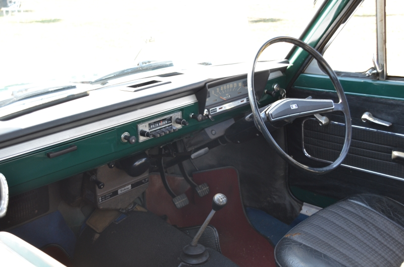 Datsun Sunny Sports Deluxe interior